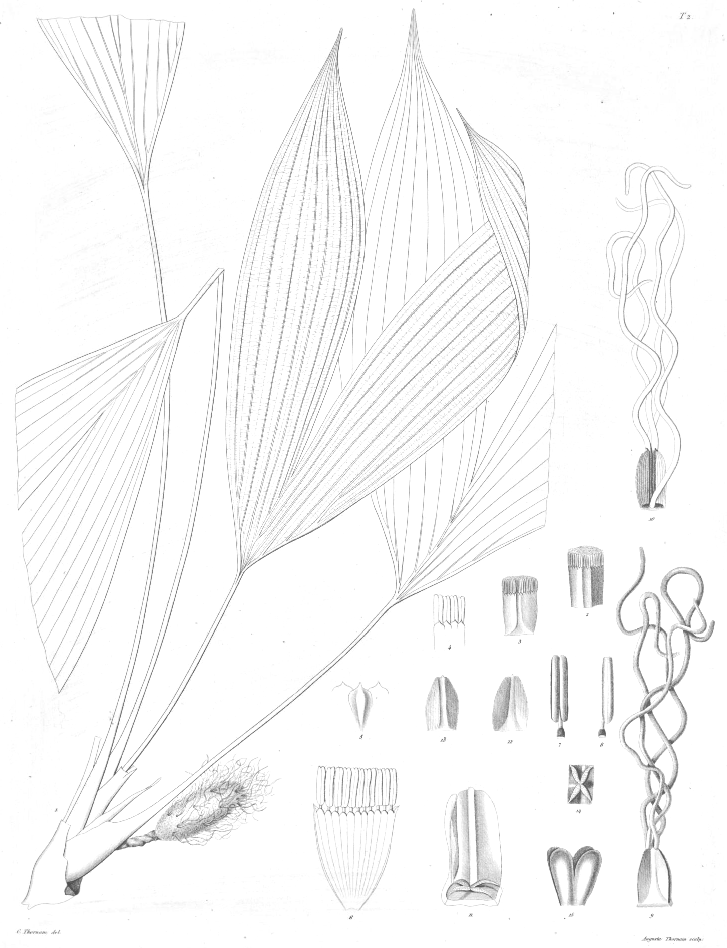 Plate from book